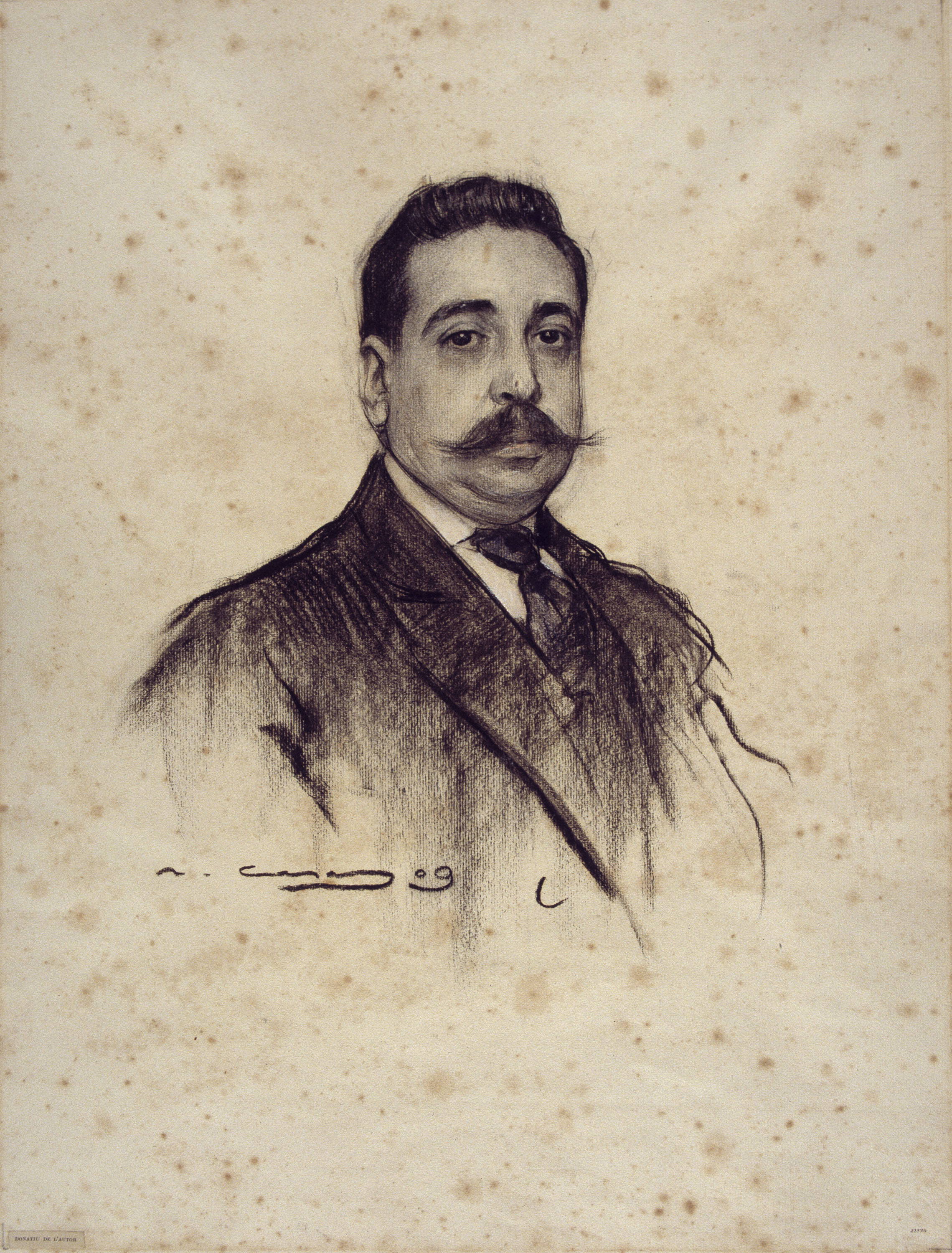 Portrait by Ramon Casas conserved at MNAC in Barcelona. Imagen 080